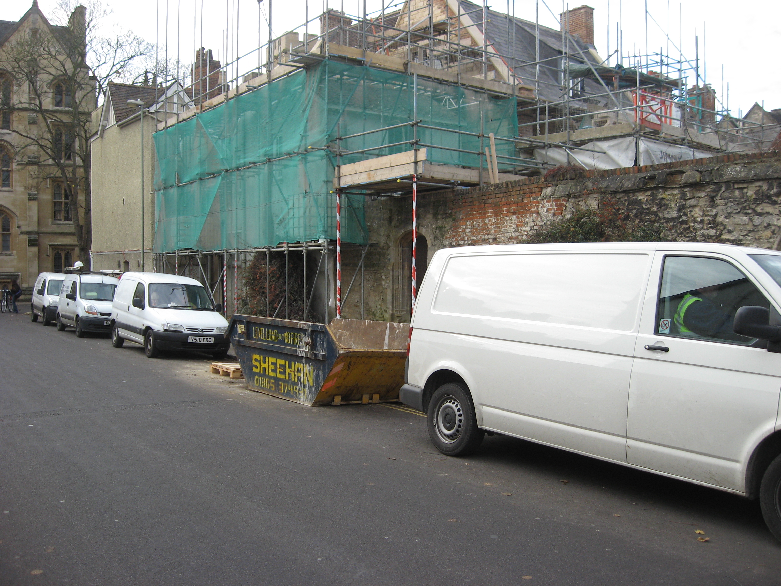 Several white vans in Oxford, on Mansfield Road at Holywell Street.